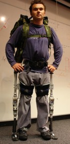 cono walsh pictured. worked on this with conor, hugh herr, ken pasch, andrew valiente, and chi won.